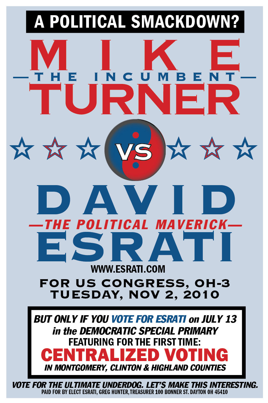 Esrati 2010 campaign poster